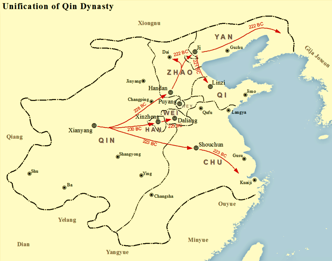 Map showing the Qin's unification of seven warring states led by Qin Shi Huang emperor. 中文（中国大陆）: 秦统一六国示意图